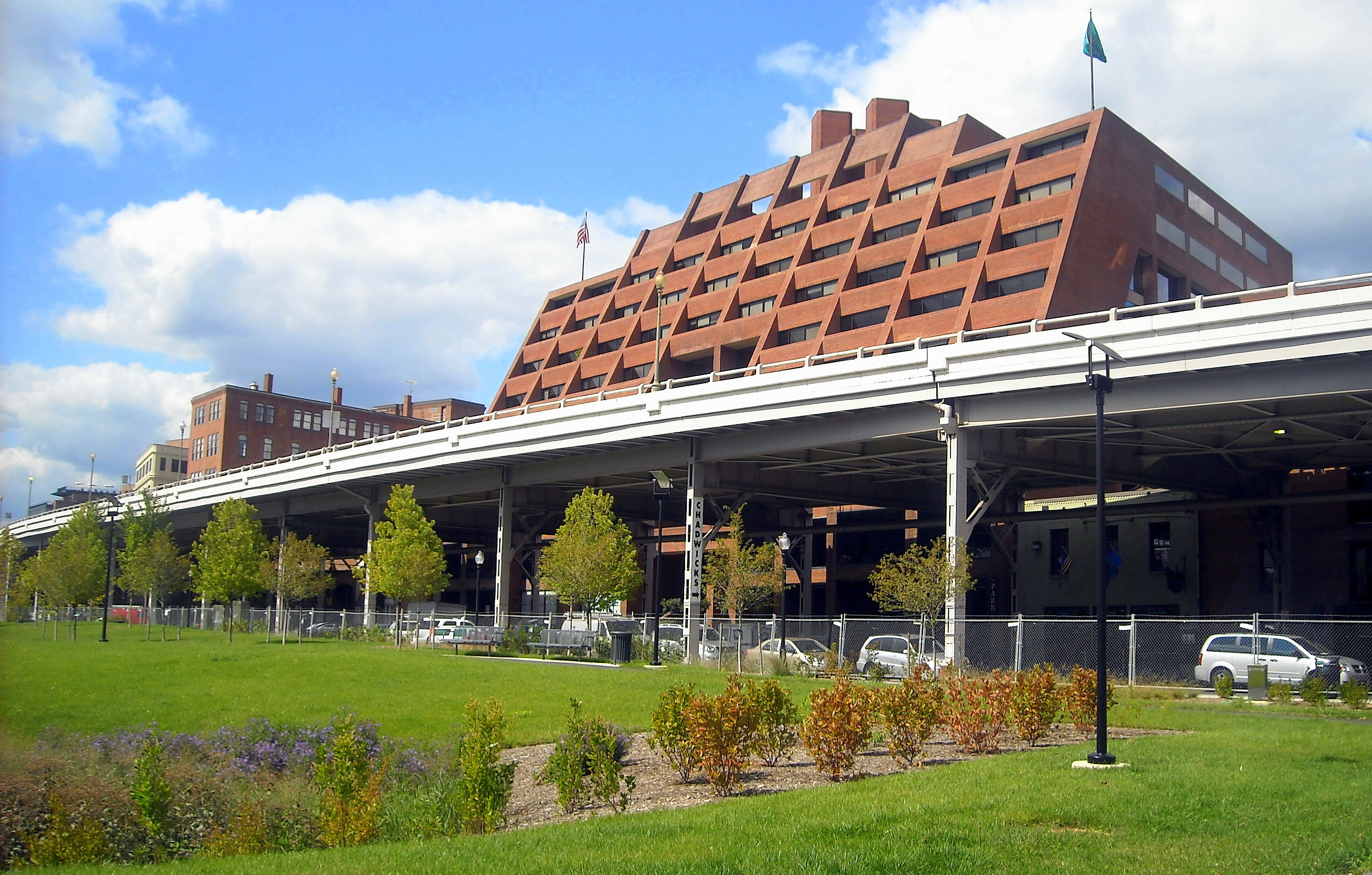 The Waterfront Center and Whitehurst Freeway in the Georgetown neighborhood of Washington, D.C. The new Georgetown Waterfront Park is in the foreground. K Street NW is the road running beneath the freeway.